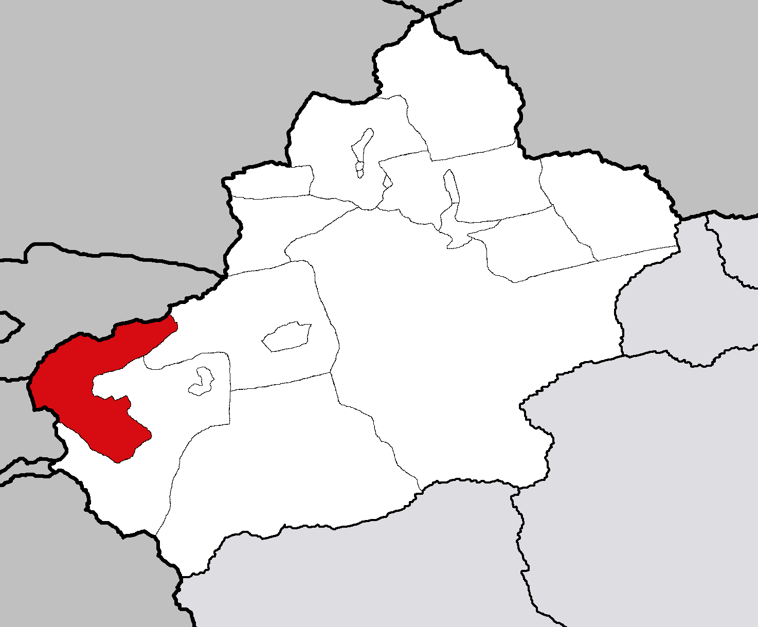 Maps of Xinjiang Uygur Autonomous Region of China